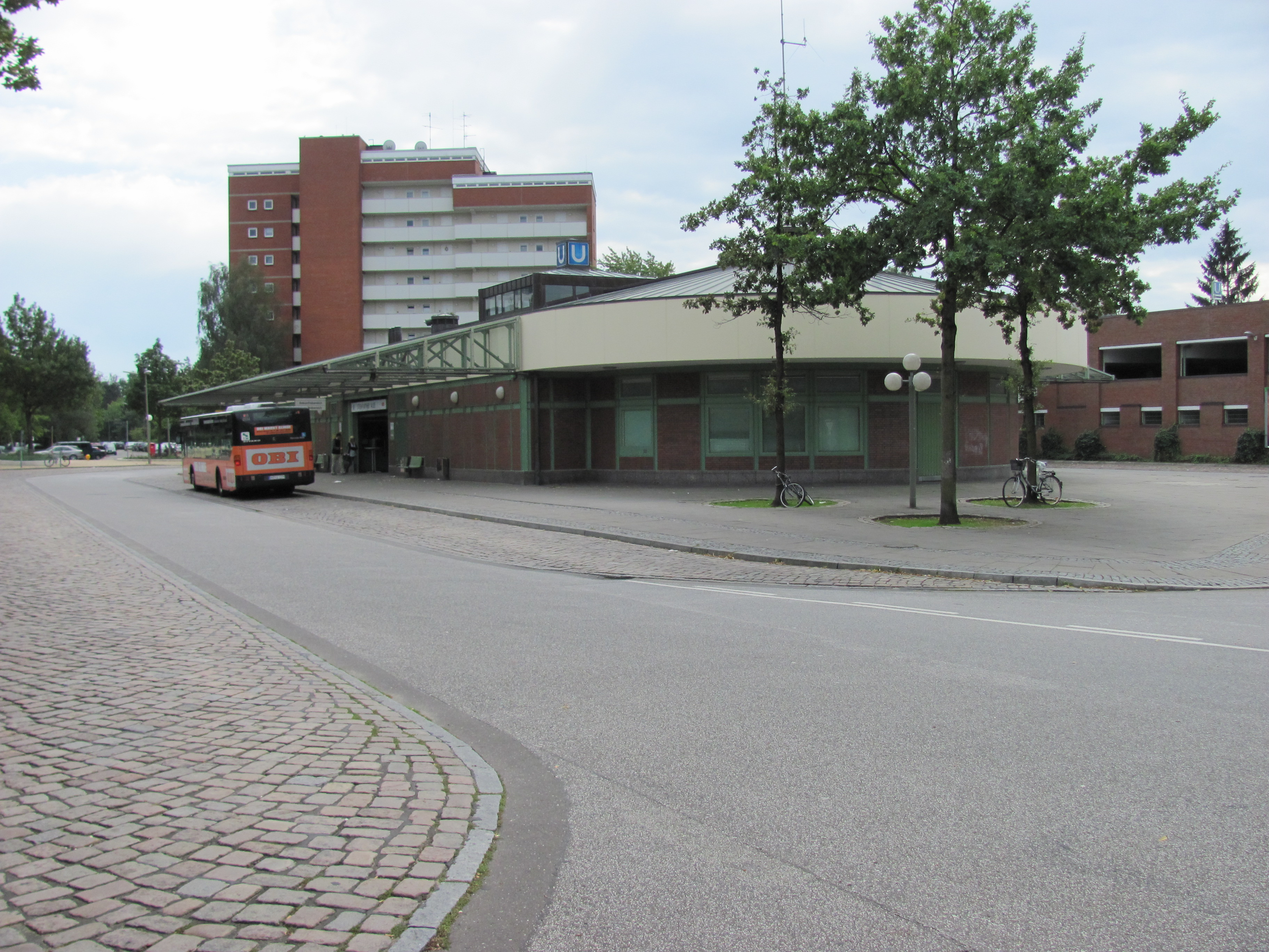 U-Bahn station Steinfurther Allee in Hamburg, Germany